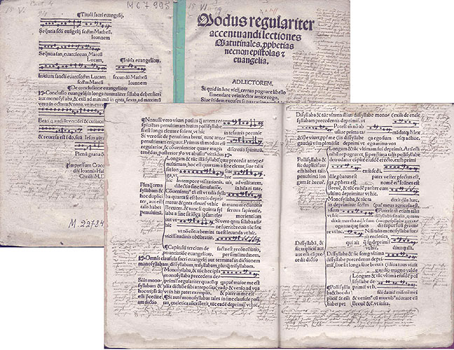 Sebastianus de Felstin Modus regulariter accentuandi lectiones. Matutinales prophetias necnon epistolas et euangelia. - Impressum Cracouie: in edibus domini Ioannis Haller, 1518